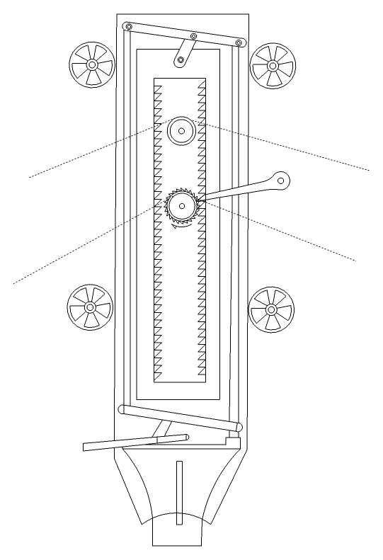 The action mechanism of change the position and direction for winding of mainspring of the clock developed in the 1760s by James Cox.